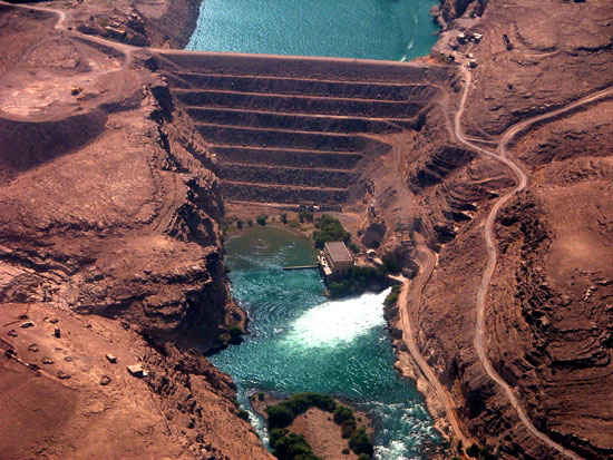 The Kajaki Dam provides flood control, power and irrigation water to the Helmand Valley. Without the dam, the surrounding region would be arid and could not produce crops. Morrison-Knudsen built the 90 meter high earth and rock fill embankment dam in 1953. When the Russians invaded Afghanistan, the contractors left. They intended to raise the dam by 2 meters in order to increase the available water for power production and irrigation. They were also cutting in an emergency spillway, which was never completed. Gates were also never installed in the service spillway so the dam passes all water in the reservoir over 1033.5 meters. Corps’ surveyors recently visited the dam to measure and assess the elevations of the service spillway and emergency spillway